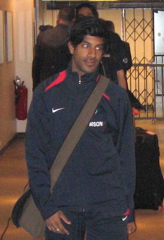 Vikash Dhorasoo arriving at the Parc des Princes on 6 May 2006 for a match against AC Ajaccio